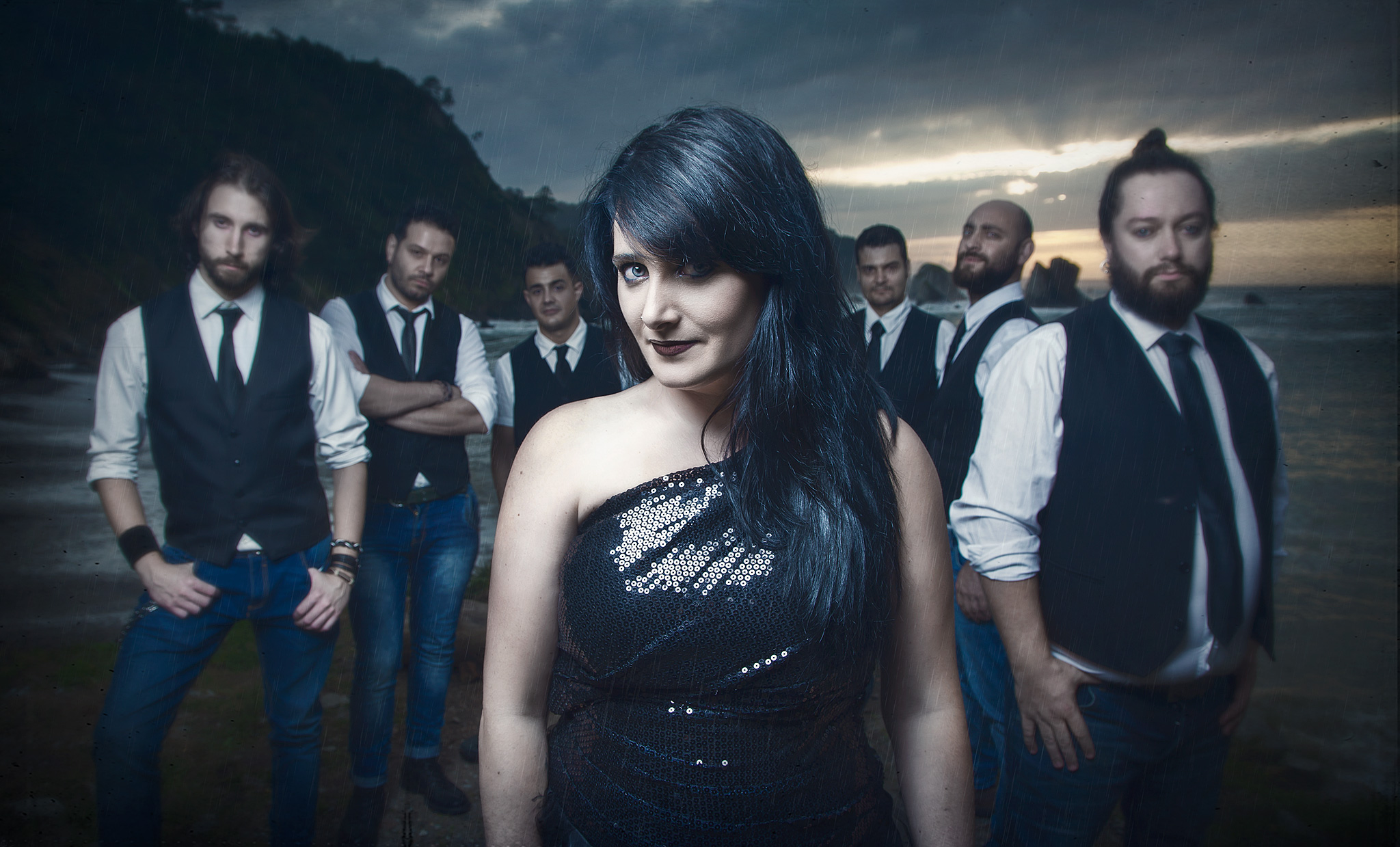 LDoE promo pic 003